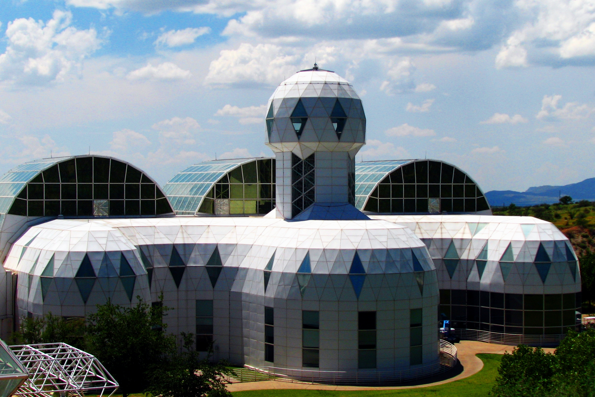 arizona, Biosphere 2, north america, road trip, 2006-07 -- United States Road Trip, filtered, edited, the west, southwest